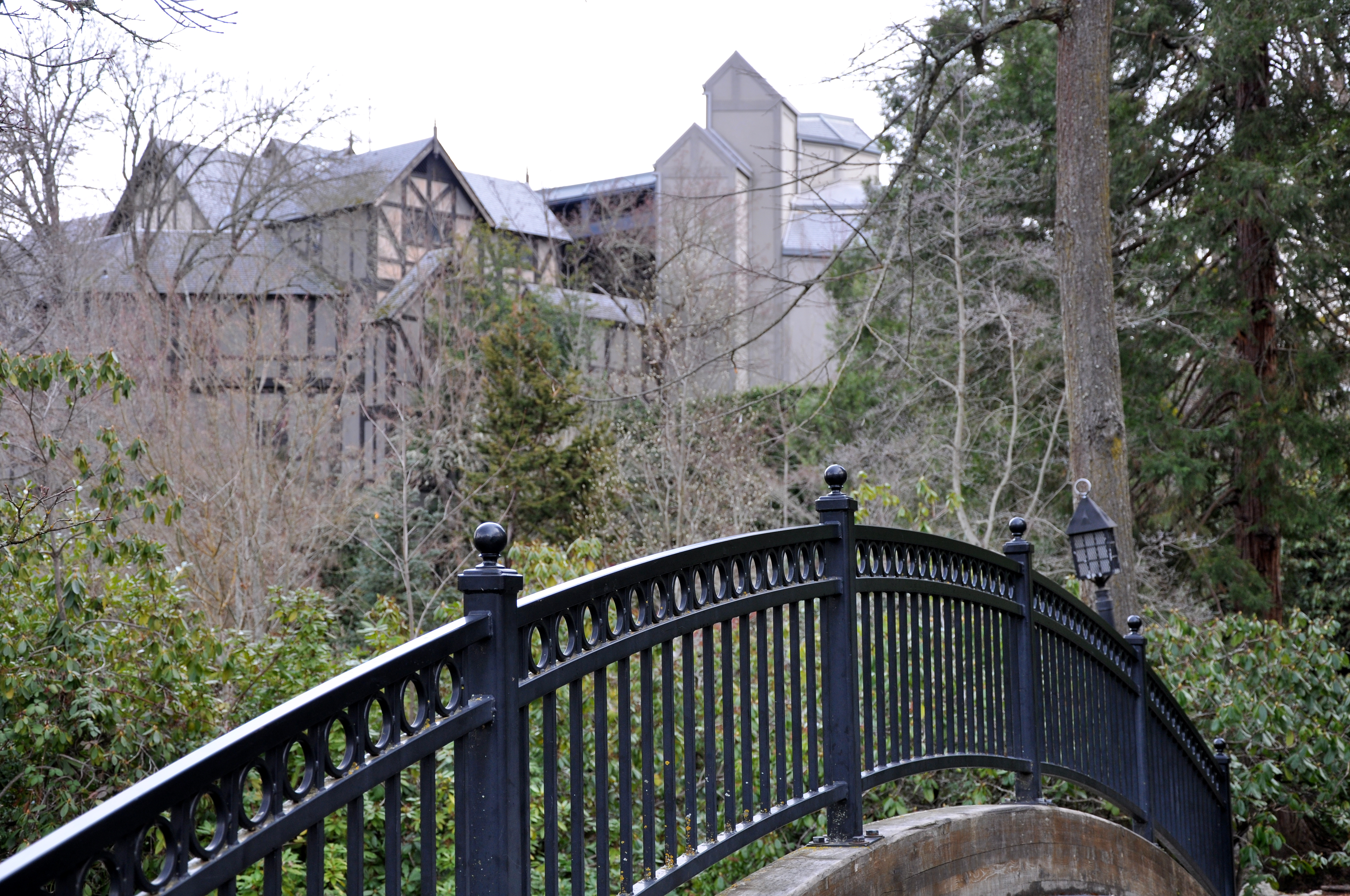 Bridge over Ashland Creek in Ashland in the U.S. state of Oregon. Buildings of the Oregon Shakespeare Festival rise above Lithia Park and the creek.